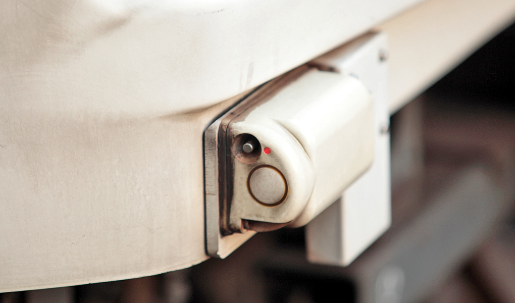 The Ultrasonic Platform Sensor of JR East 209 series EMU on Keihin-Tōhoku Line.